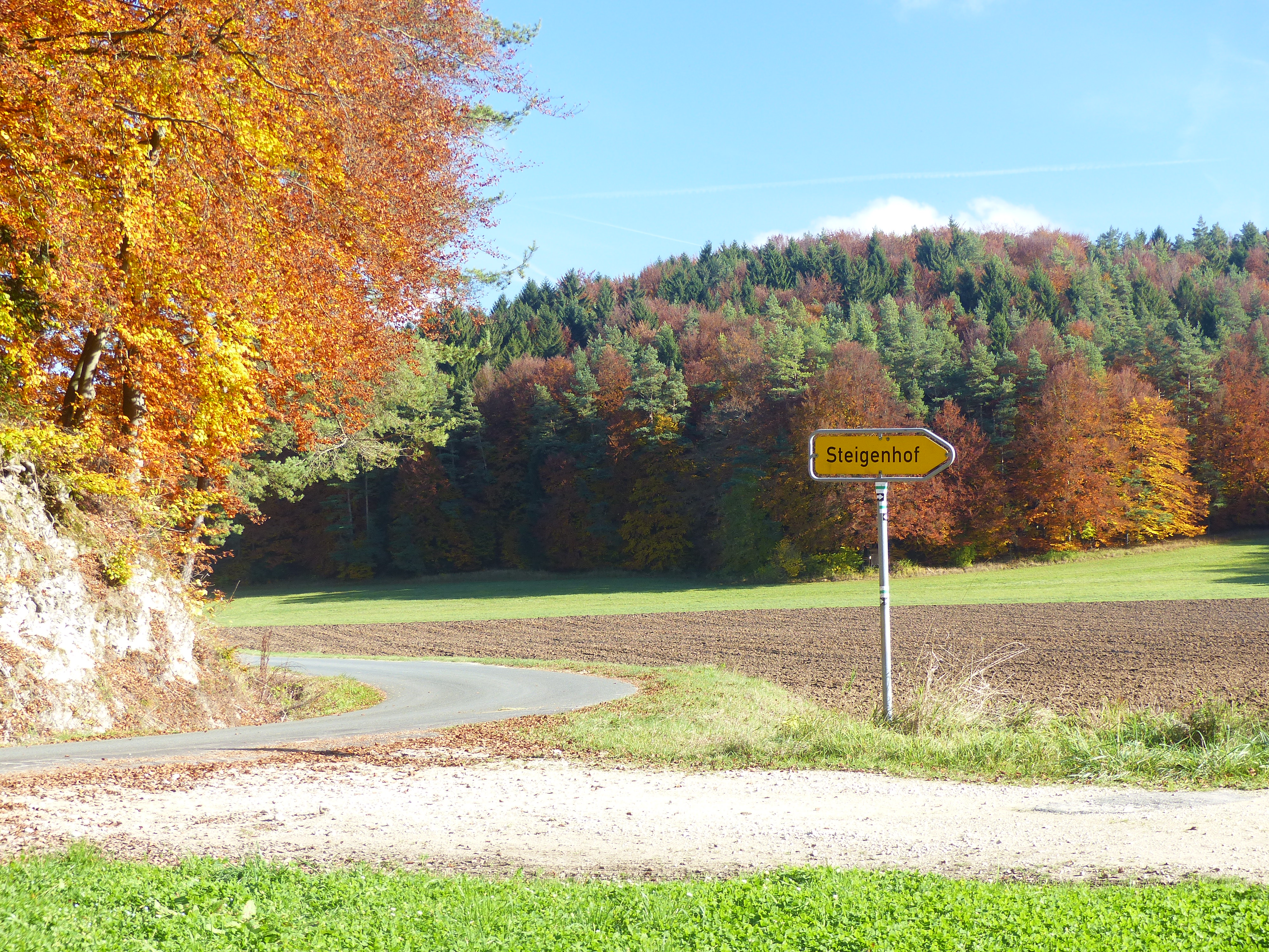 A direction sign to the isolated dwelling Steigenhof